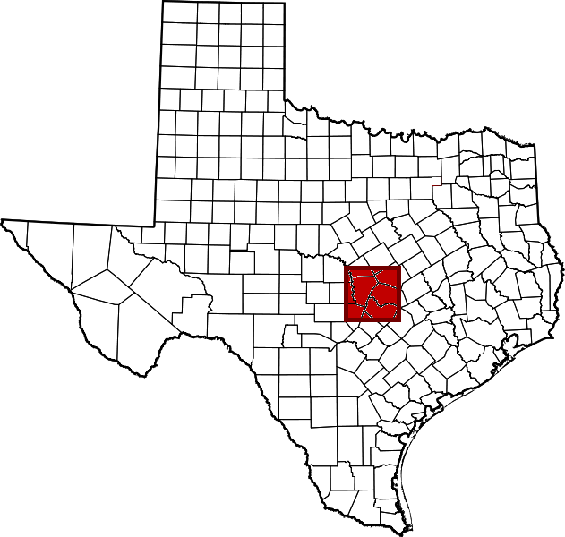 A visualization of the amount of Texas land burned in the 2010-2011 fire season as of September 13, 2011.